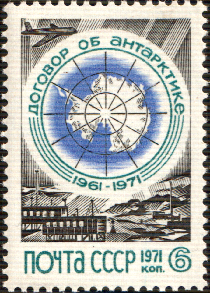 USSR stampː Threaty Emblem (Map of Antarctica) and a Russian Antarctic Station. Seriesː 10th Anniversary of the Antarctic Treaty (Opened for Signature on 1959.12.01 in Washington) and Officially Entered into Force on 1961.06.23)